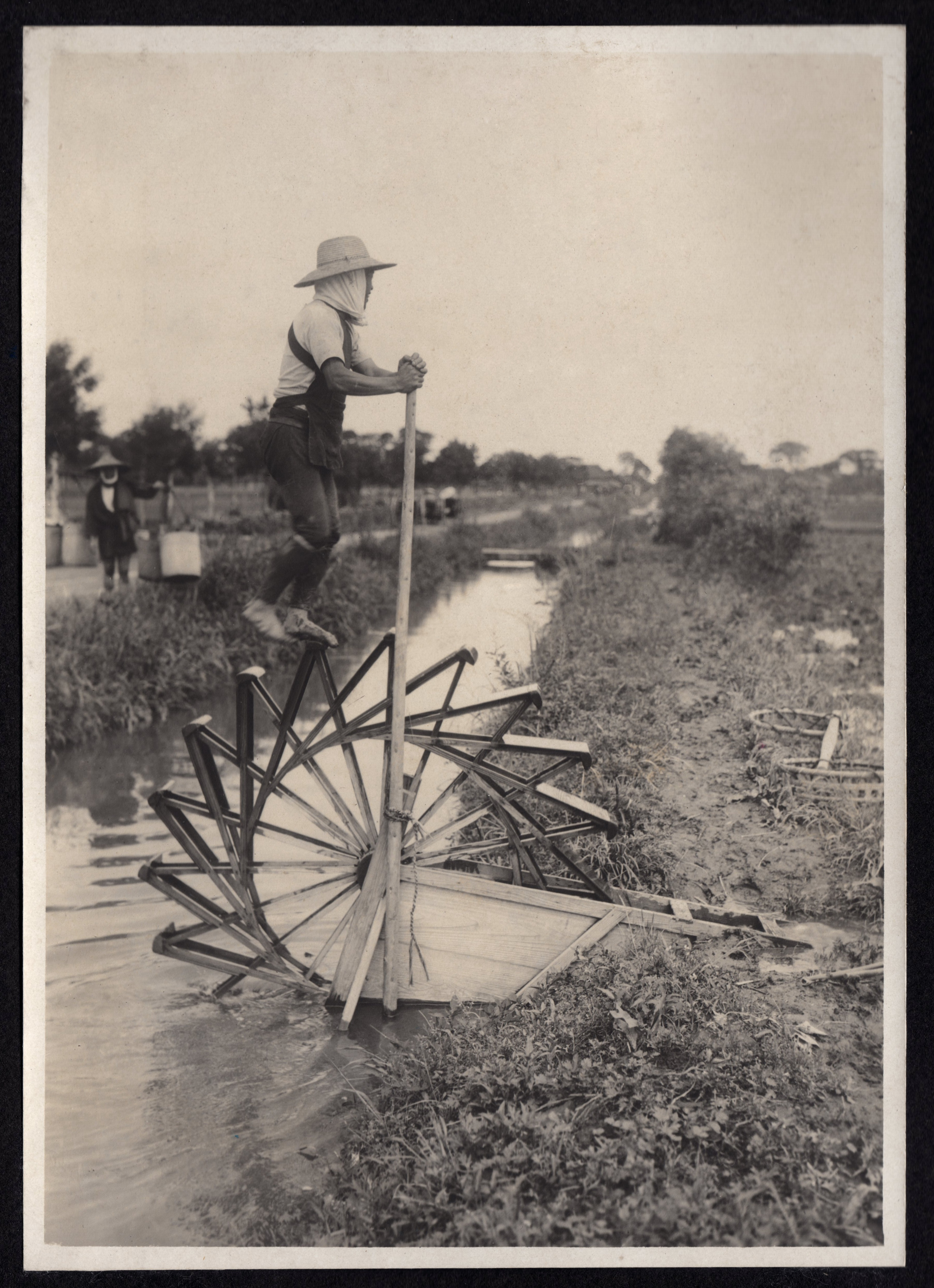 What a beautiful piece of craftsmanship! And a good workout, too. From Elstner Hilton's album of photographs he took in Japan between 1914 and 1918.